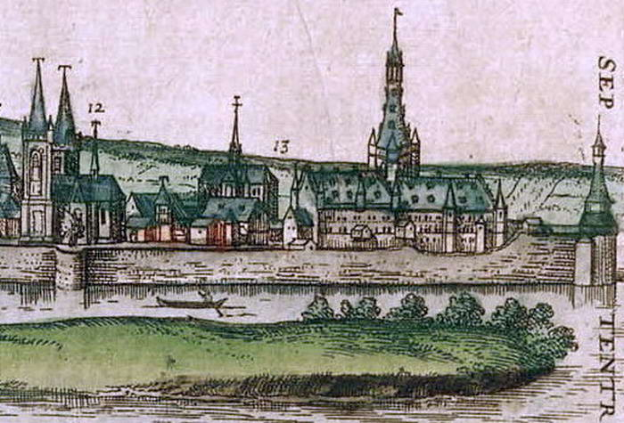 View of the Meuse river and the northeastern part of Maastricht, the Netherlands, around 1570. To the left: the monastery and church of the Hospital Brothers of St. Anthony; to the right: the Commandry Nieuwen Biesen of the Knights of the Teutonic Order. Detail of city panorama by Simon de Bellomonte, c 1570